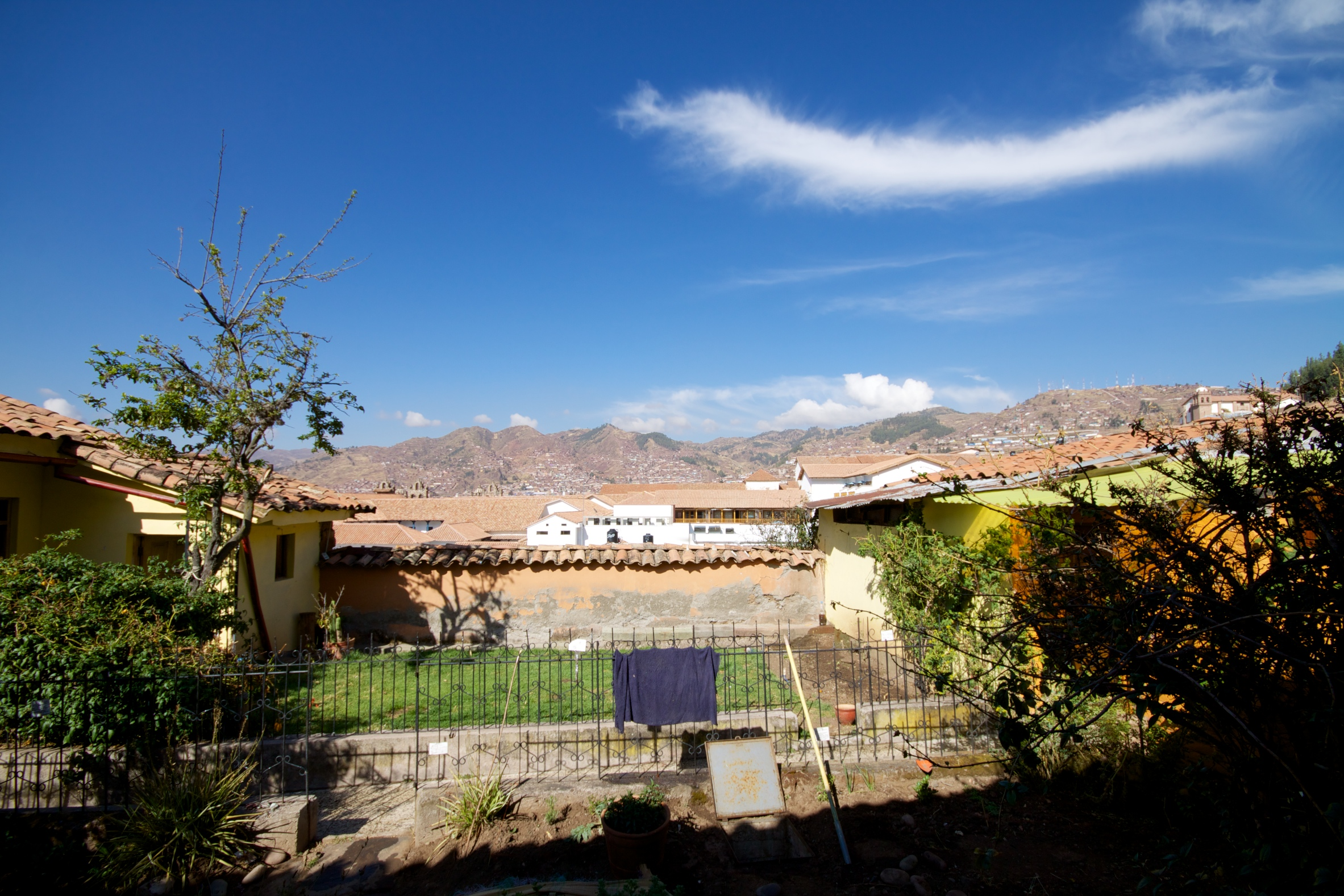 View from the door of my room out into our garden and over Cusco below